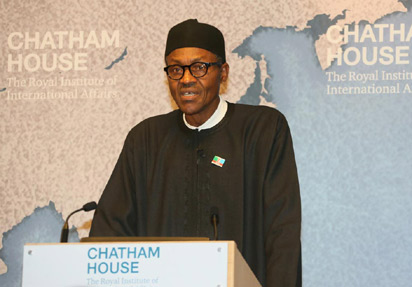 Muhammadu Buhari speaking at Chatham House, 26 February, 2015.